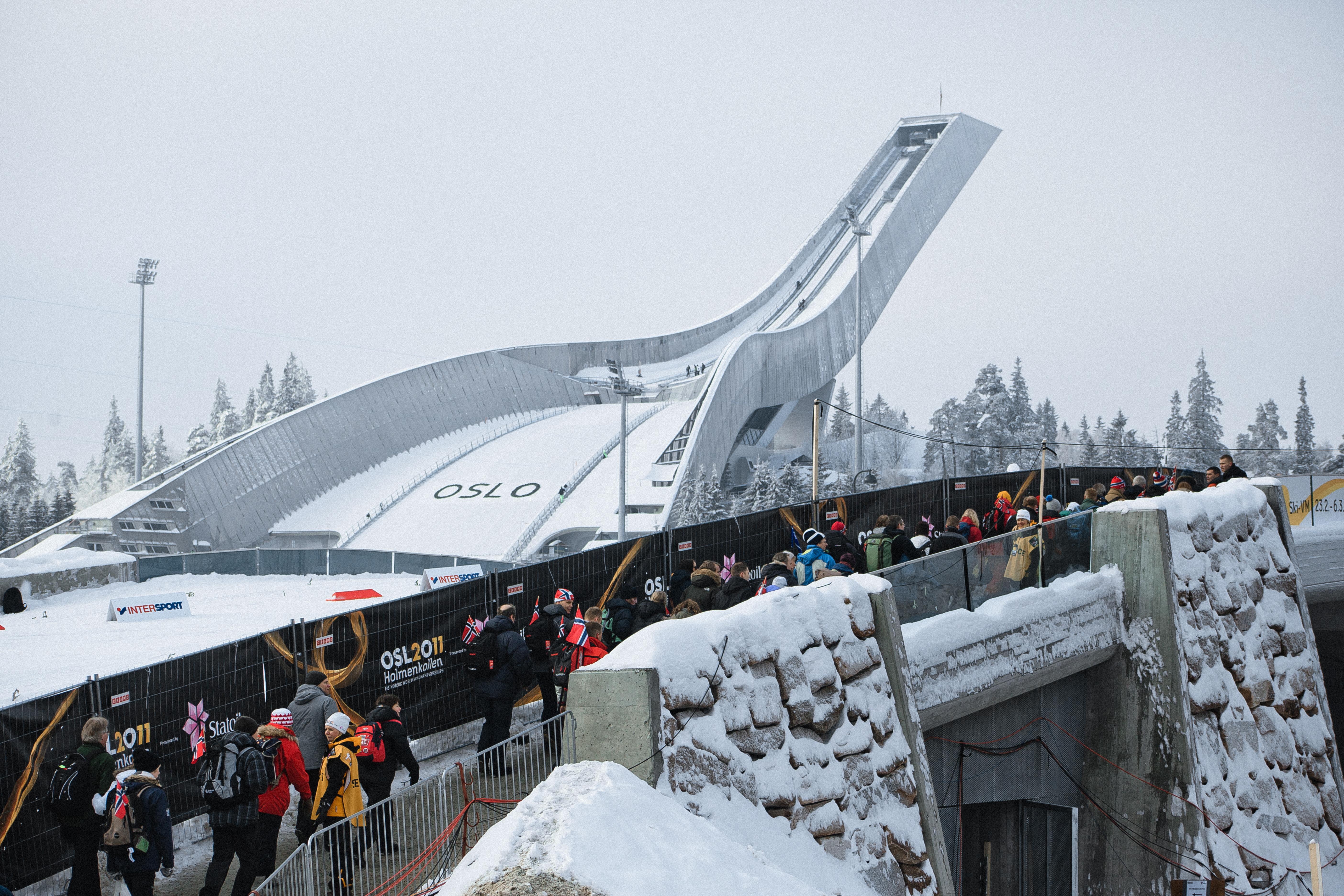 Holmenkollbakken during the FIS Nordic World Ski Championships 2011